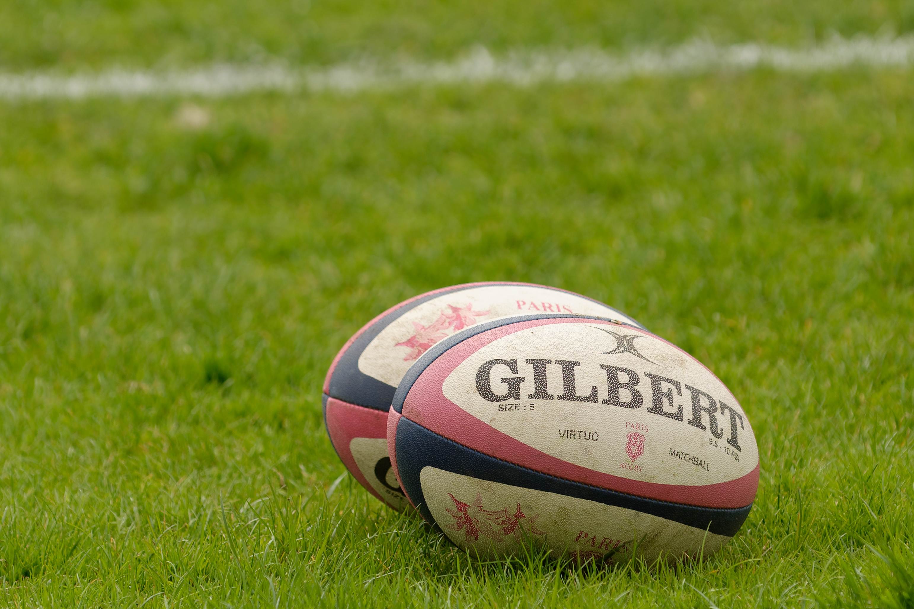 Two rugby union balls bearing the colours of Stade Français. Training session held at the Cité Internationale Universitaire, Paris on 19 April 2013.